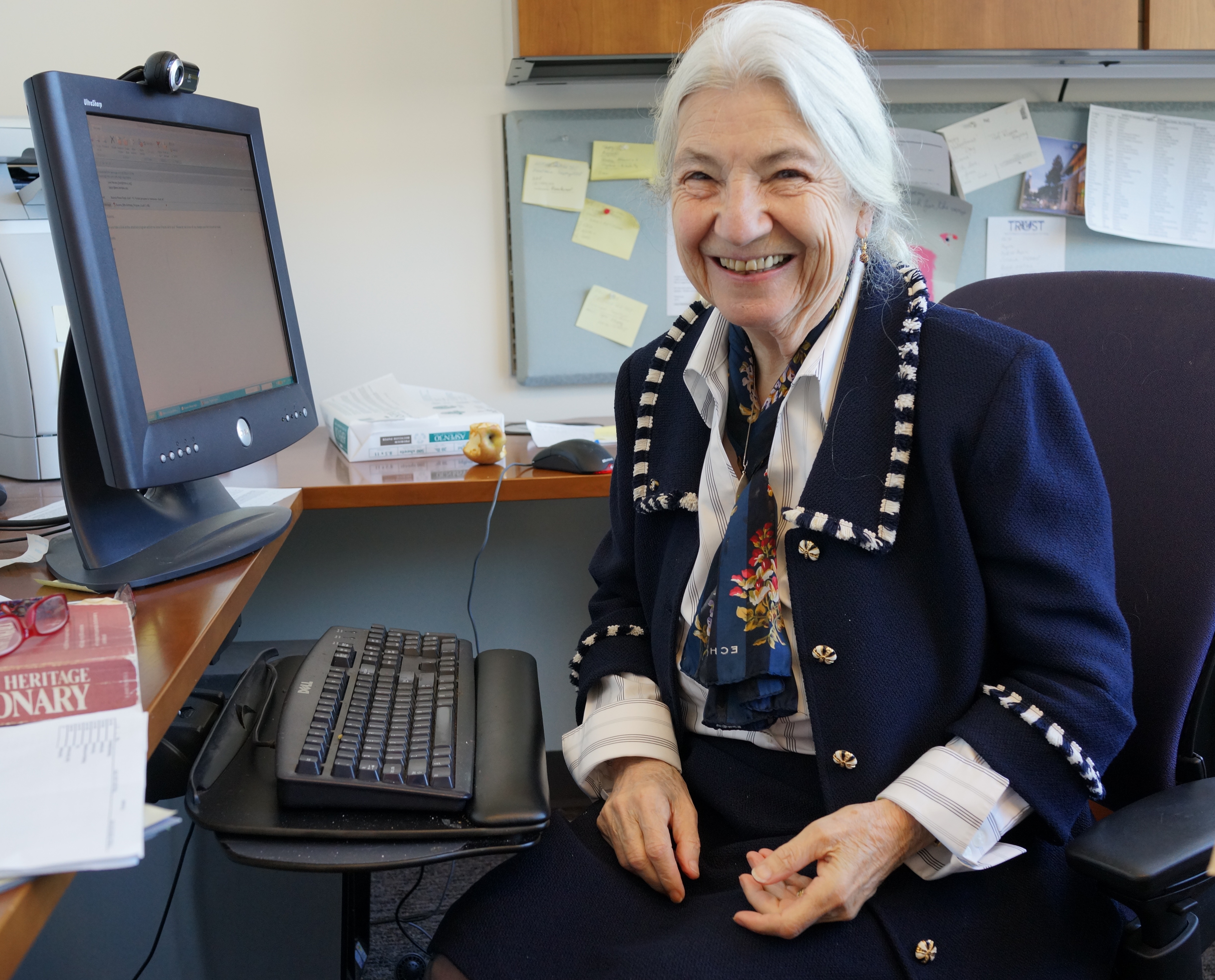 Prof. dr. Ruzena Bajcsy in her office at the University of California, Berkeley on 30 May 2013